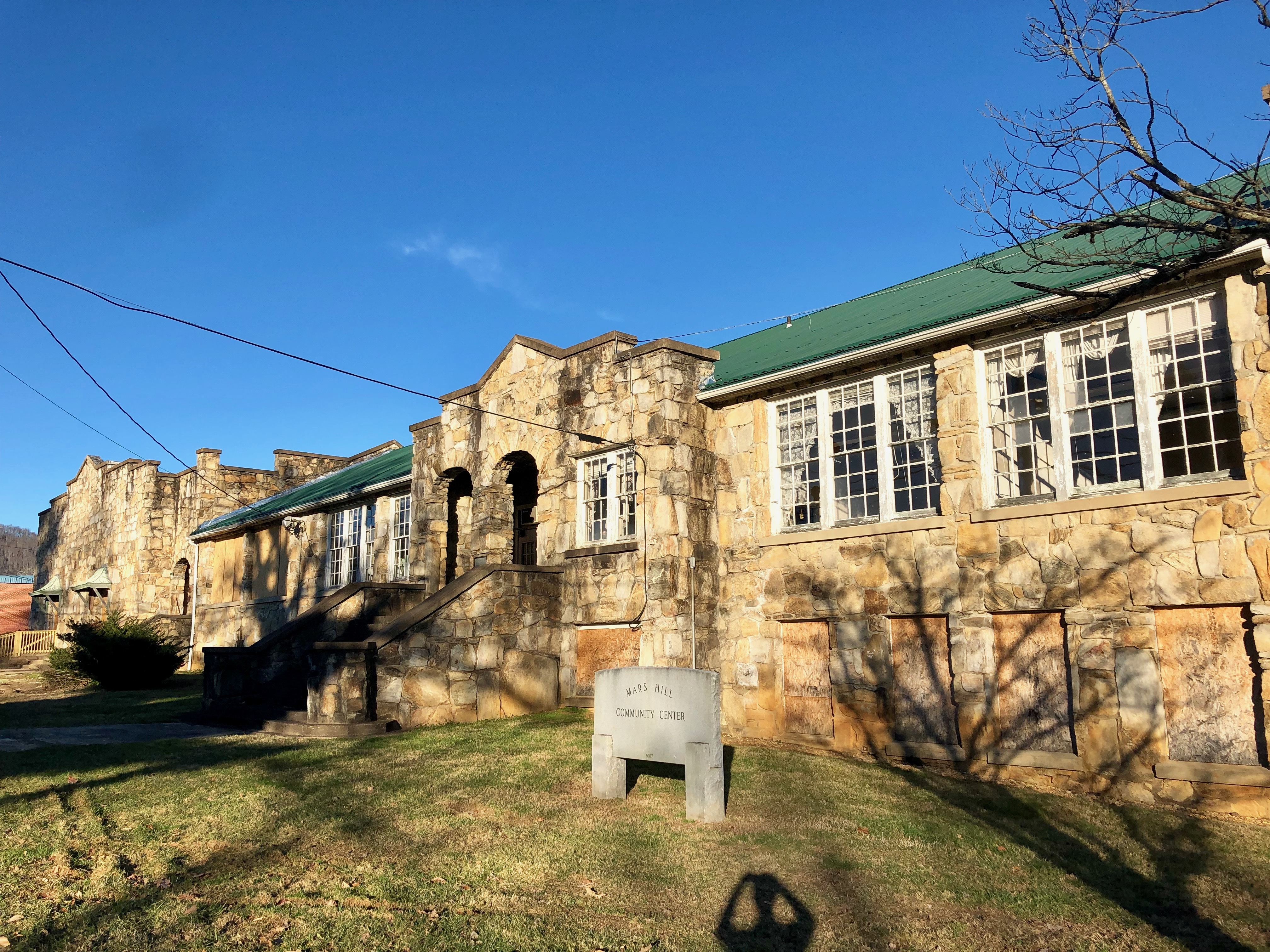 Constructed by the Works Progress Administration between 1936 and 1938, the old stone building that once housed Mars Hill High School was listed on the National Register of Historic Places in 2005. Unfortunately, though it was in use as a community center a decade ago, the county has decided to close all community centers, and a buyer has not been found for the building, which has been vacant for some time.